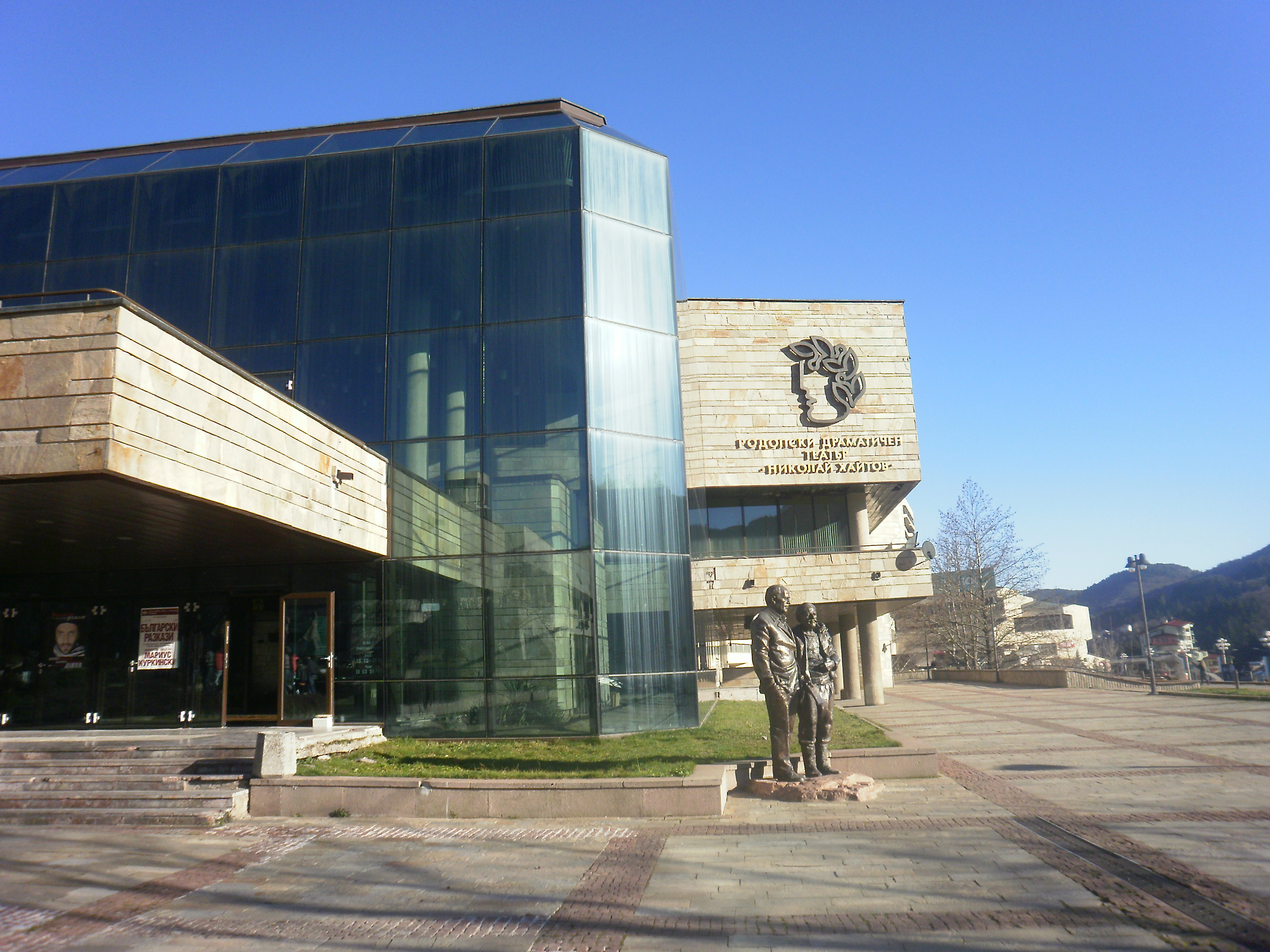 Theatre in Smolyan, Bulgaria.